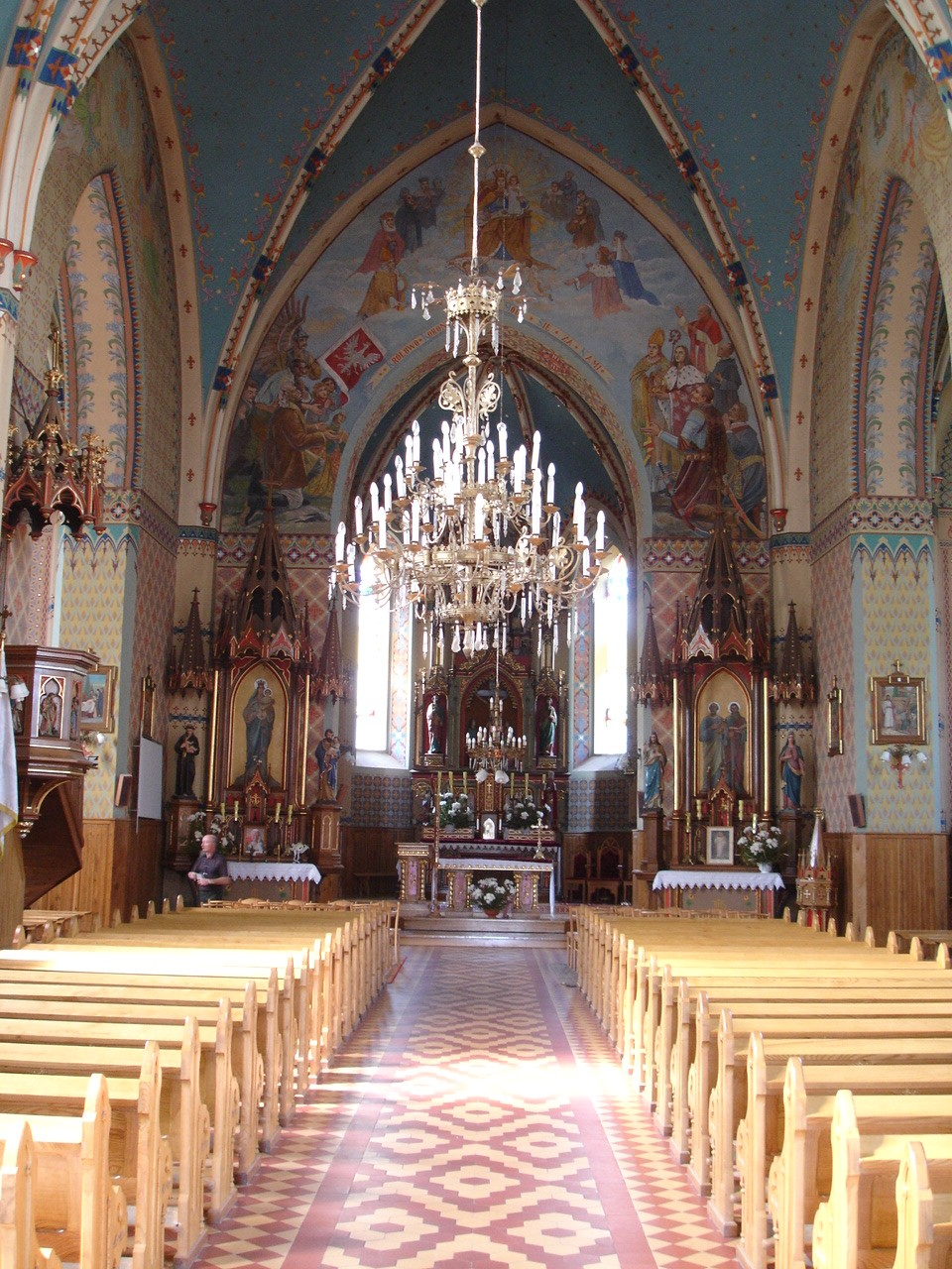 Bukowsko latin parish (inside)